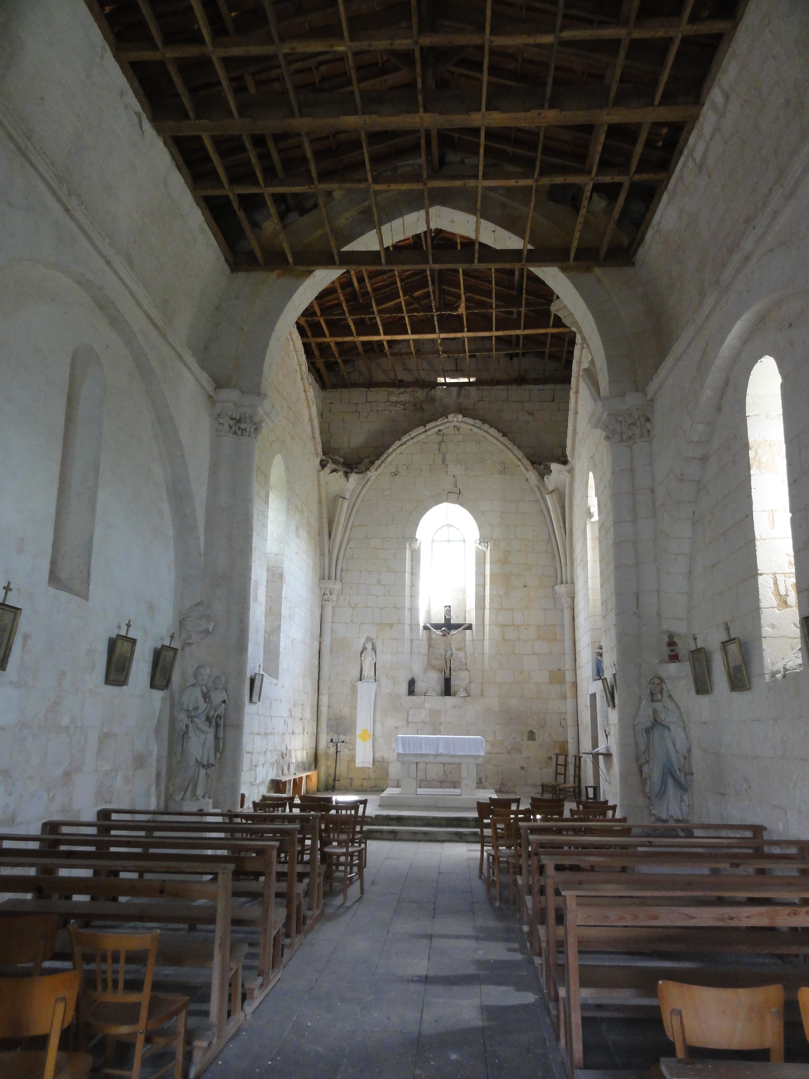 Belluire (Charente-Maritime) Église Saint-Jacques, intérieur